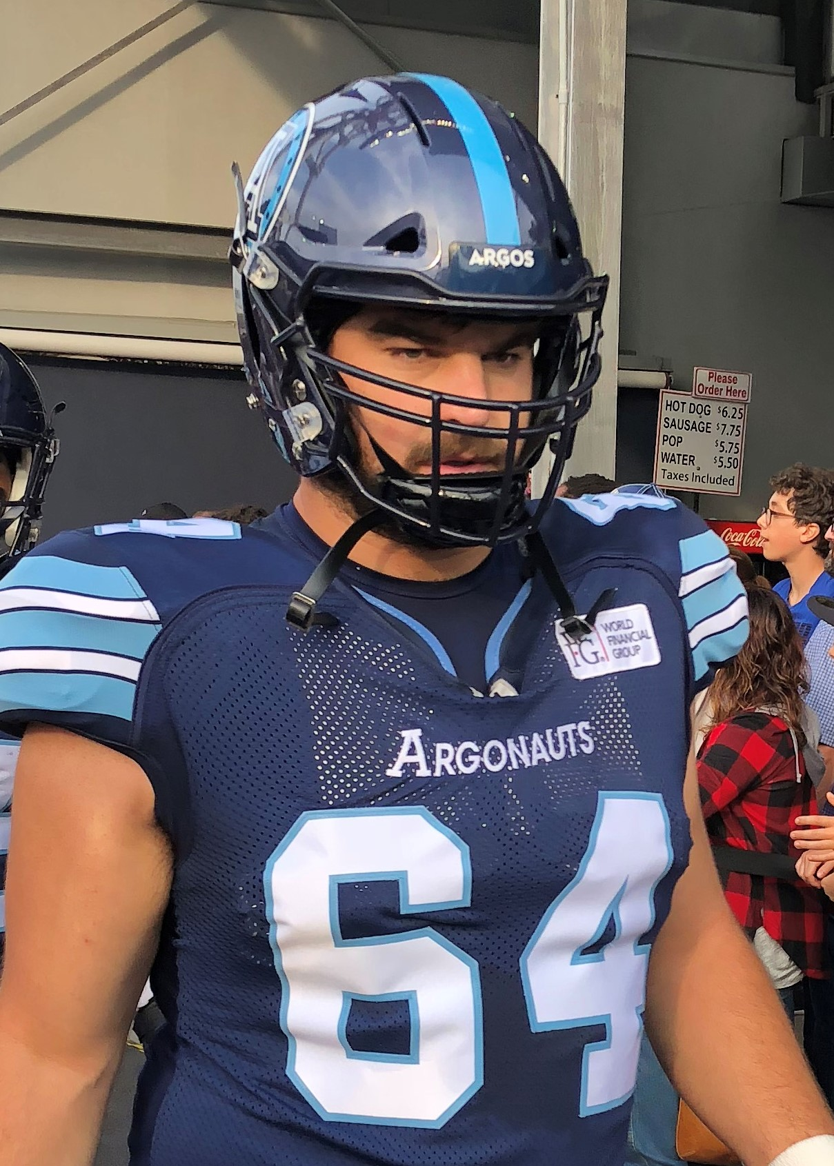 Ryan Bomben, Offensive Lineman for the Toronto Argonauts.